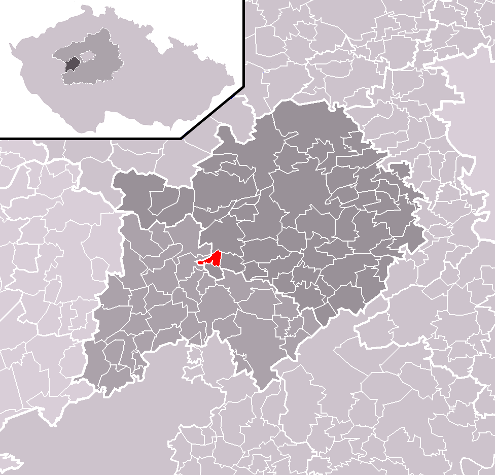 Location of Bavoryně municipality within Beroun District and administrative area of Beroun as a Municipality with Extended Competence.